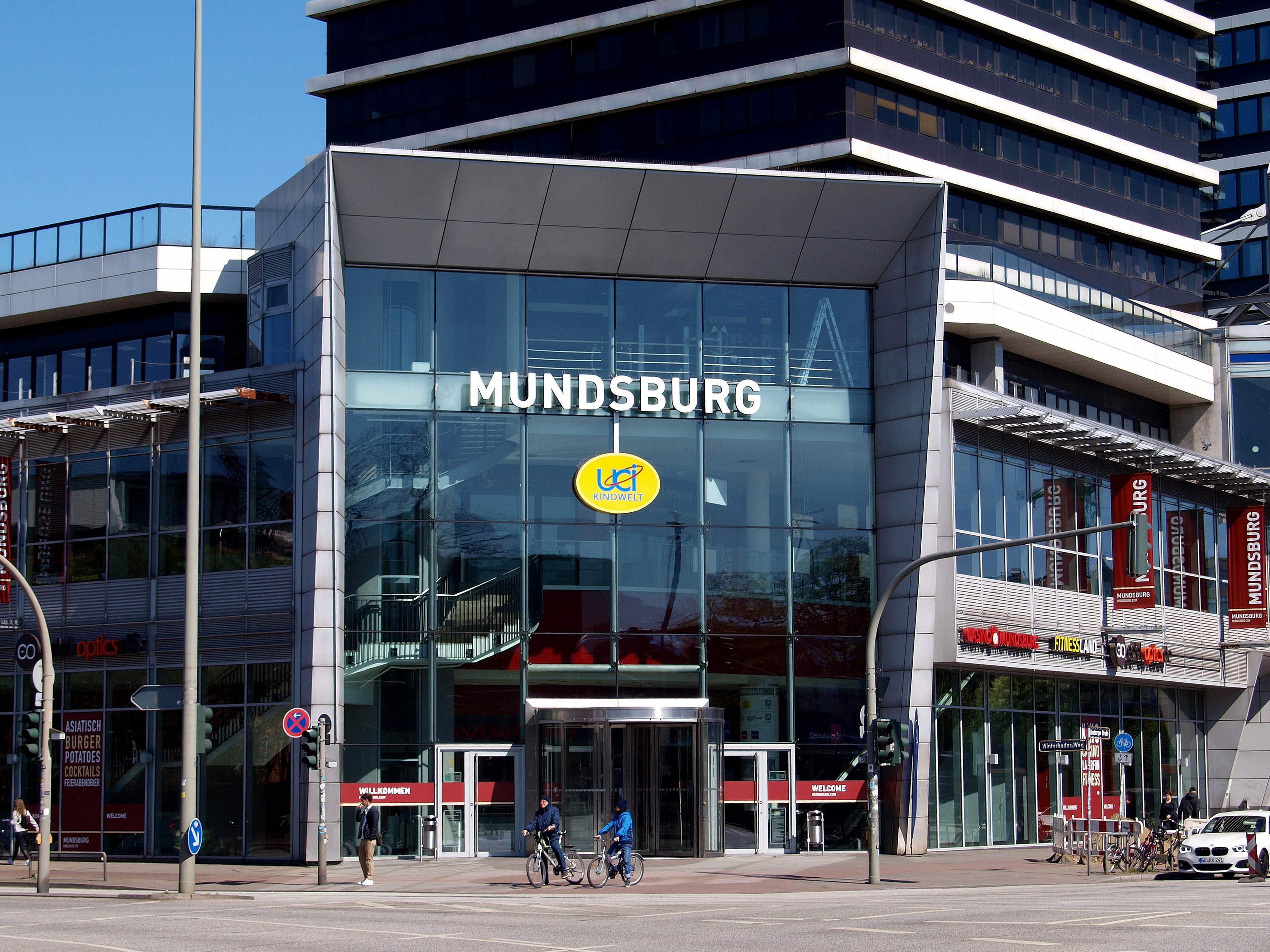 Cinema UCI Kinowelt Mundsburg. Hamburger Straße 1–15, Hamburg, Germany.